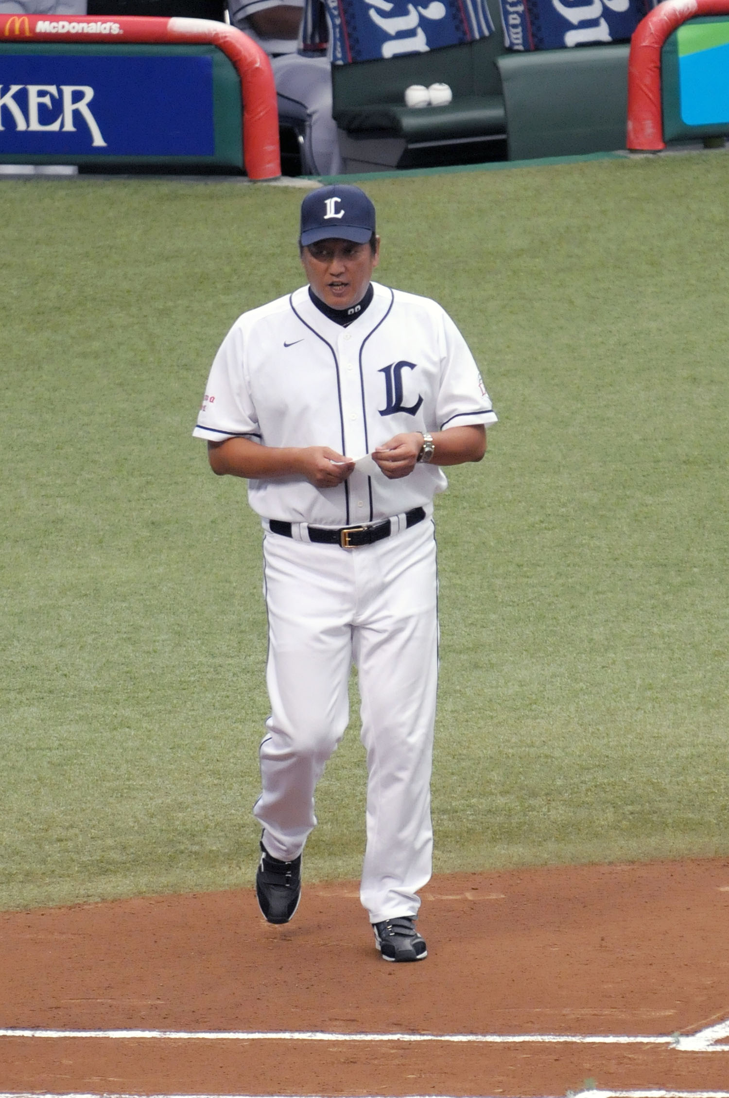 Hisanobu Watanabe, manager of the Saitama Seibu Lions, at Seibu Dome.